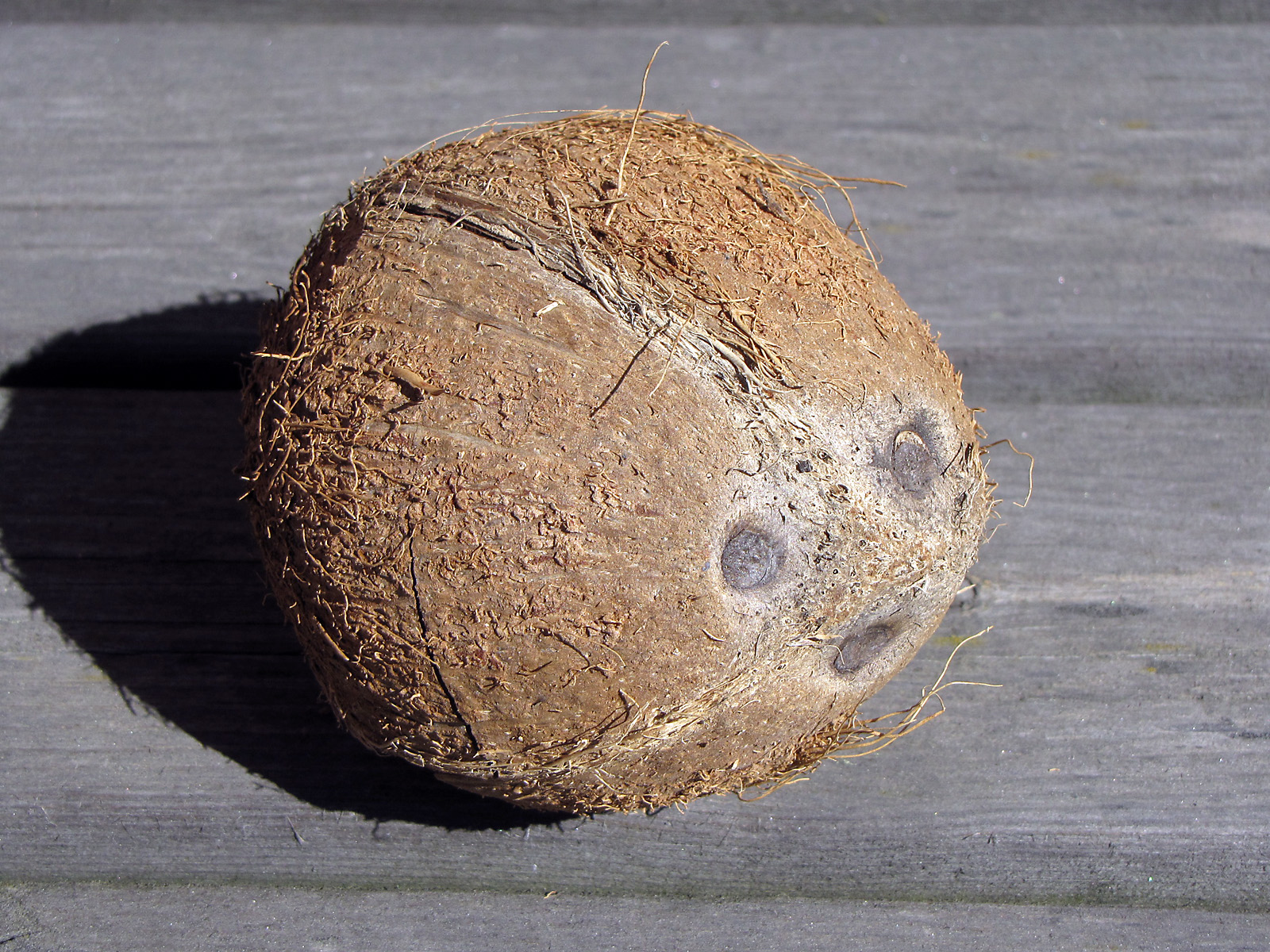 A coconut with its typical "face".